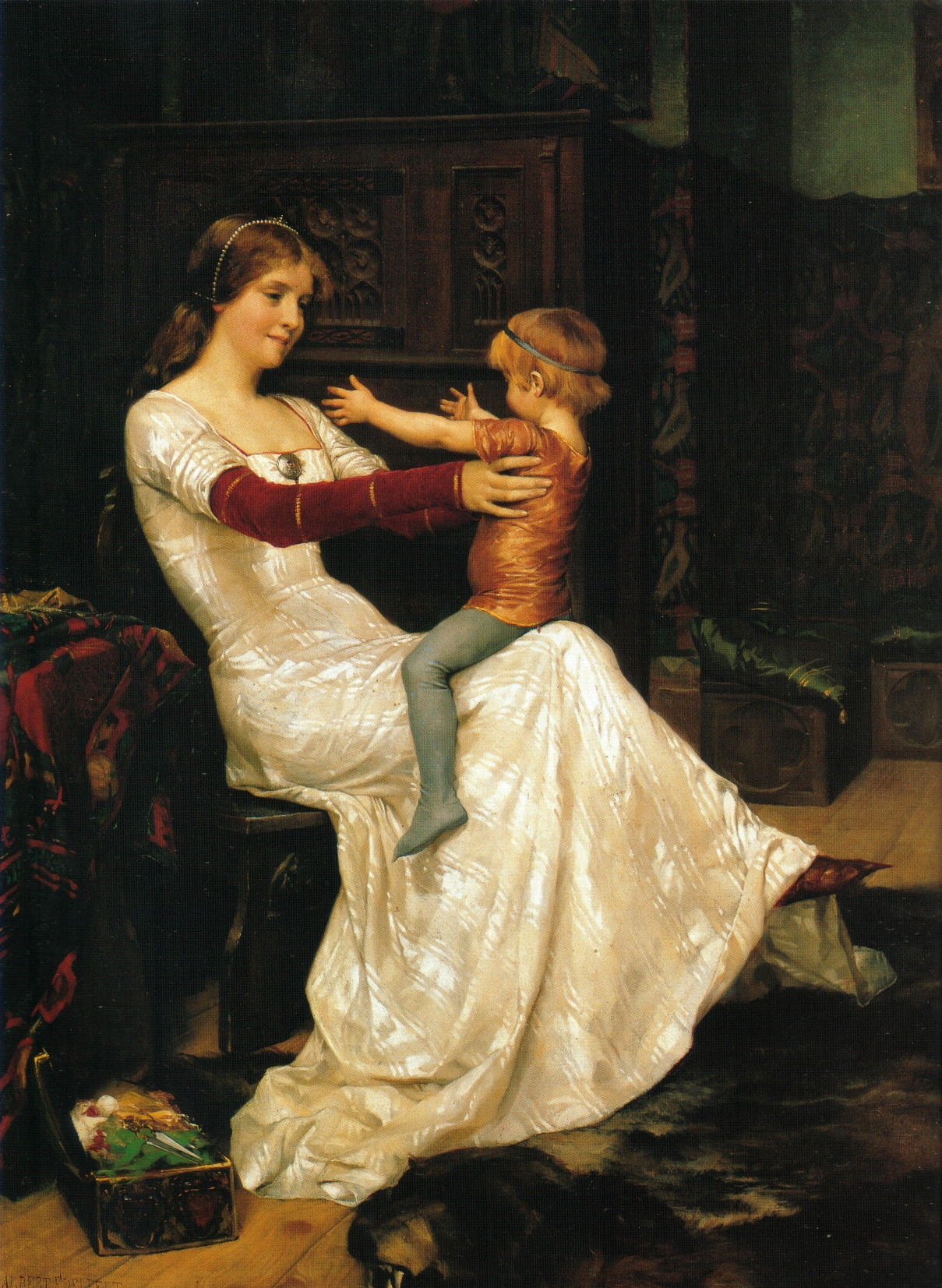 a fantasy painting. (Listed as "Mother and Child" on the web page this reproduction is downloaded from.